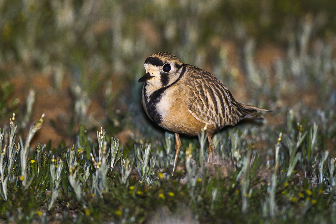 Inland Dotterel - Deniliquin - Victoria_S4E3421